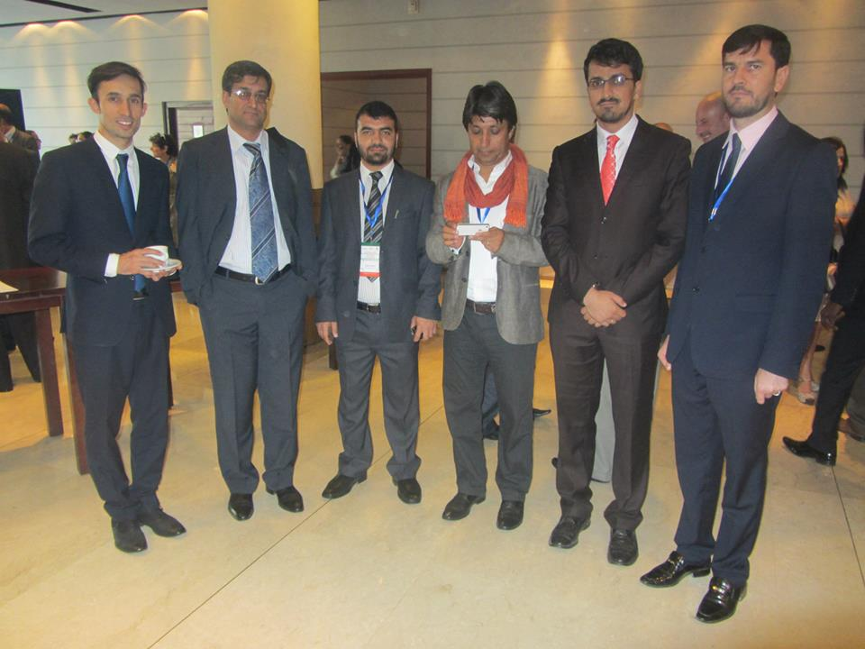 Mohammad Shafiq Hamdam during an international conference in Morocco with the Afghan media, business and judiciary sector.